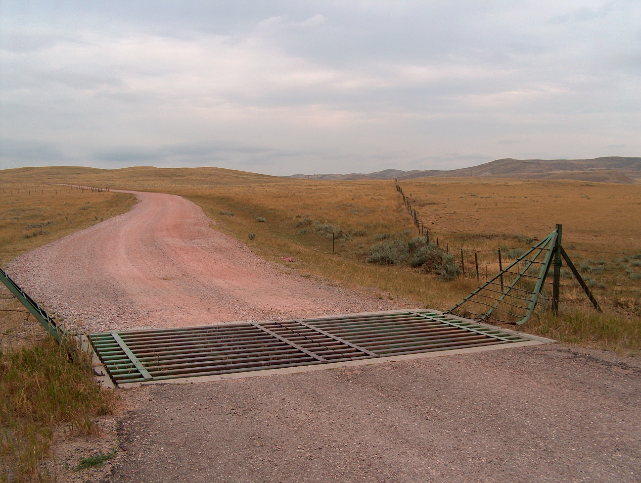 Ranch road leaving State Highway 270 in Platte County, Wyoming. Photo by Ken Gallager, August 1, 2006.